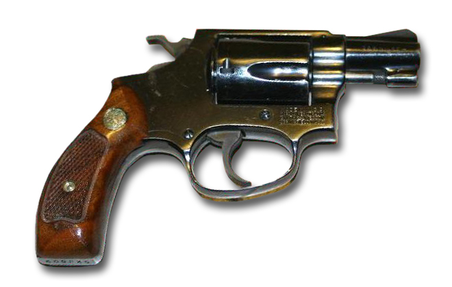 Photo of my S&W model 36 revolver